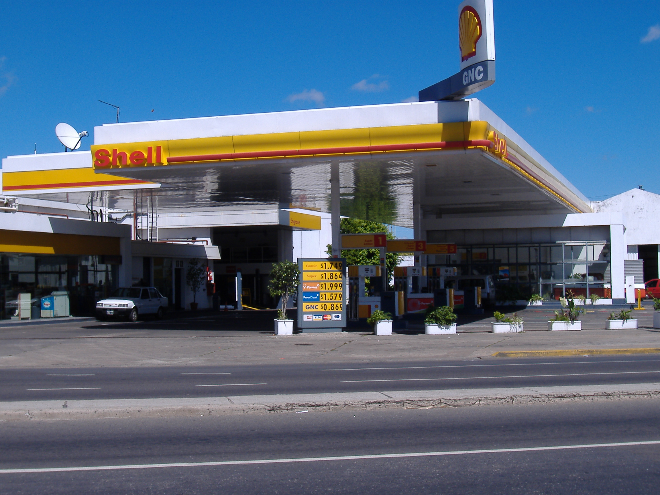 A Shell petrol station in Alberdi Avenue, Rosario, Argentina. Note the prices are in Argentine pesos per litre (1 U.S. dollar ~= 3 pesos at the time). Top down, the first four are for different types of gasoline; the last (marked "GNC") is for compressed natural gas. Argentina has the world's largest proportion of motor vehicles moved by NG. This picture was taken by Pablo D. Flores on 4 March 2006.